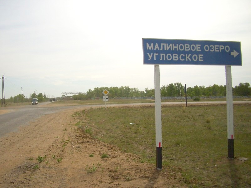 Дорога